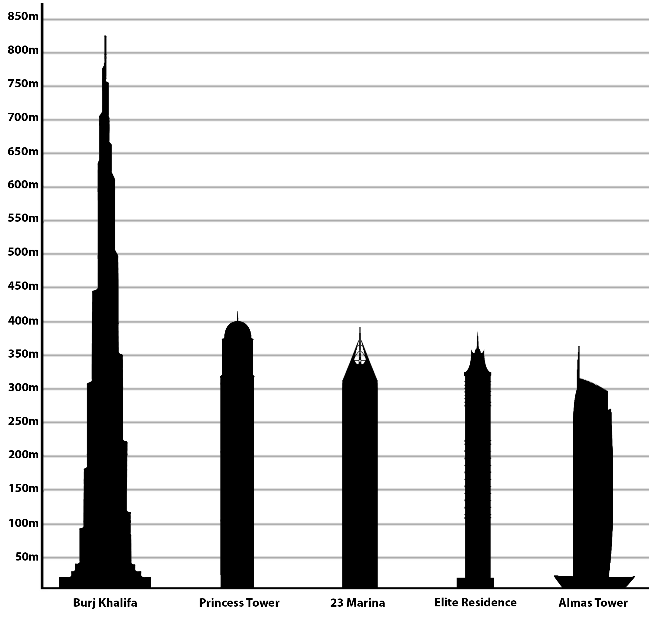 Tallest Buildings in the UAE; Used data from .